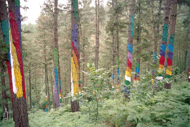 "Omako basoa" edo "Baso margotua" by Agustín Ibarrola in Kortezubi, Spain